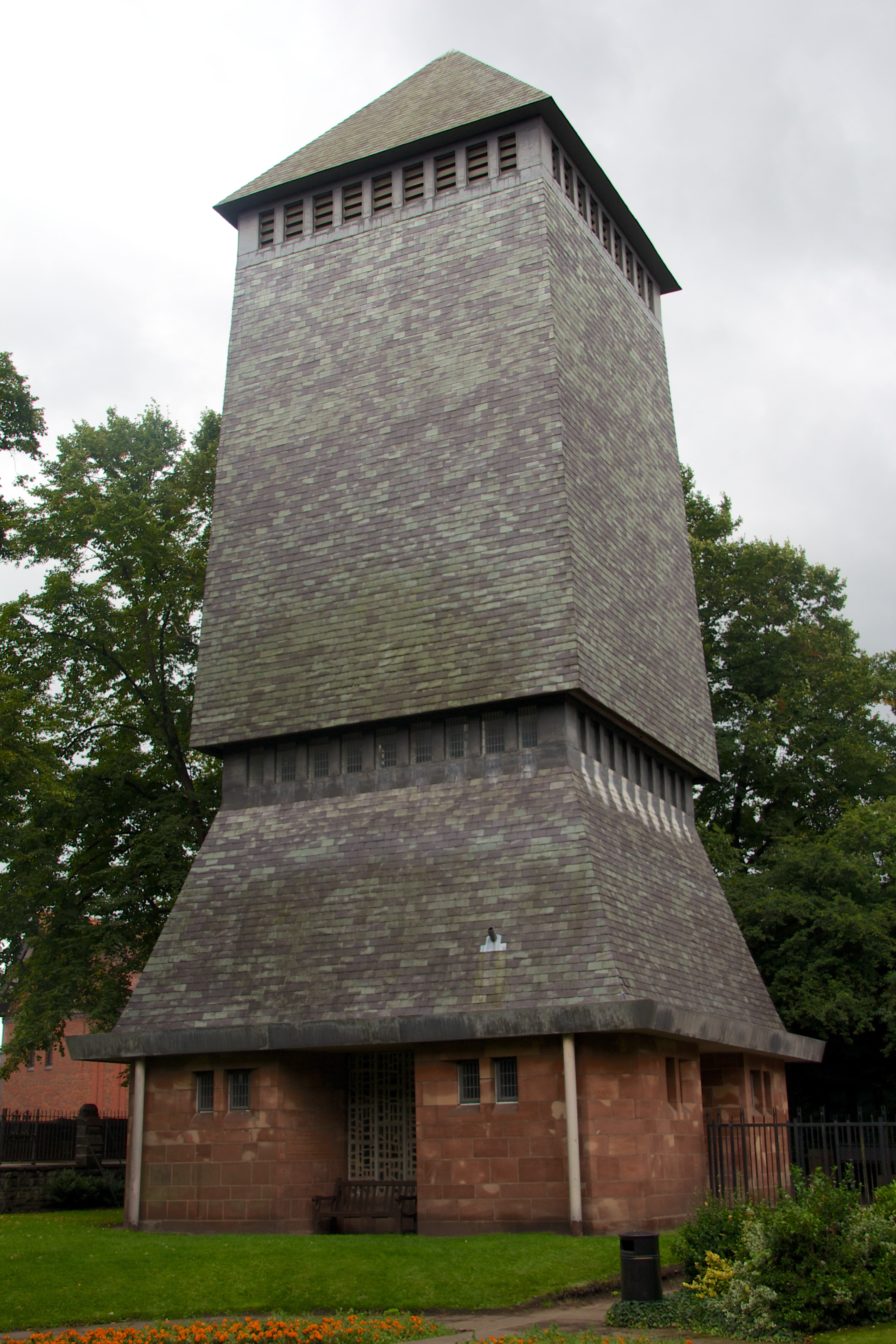 Addleshaw Tower, Chester Cathedral, taken as part of Wikipedia Takes Chester